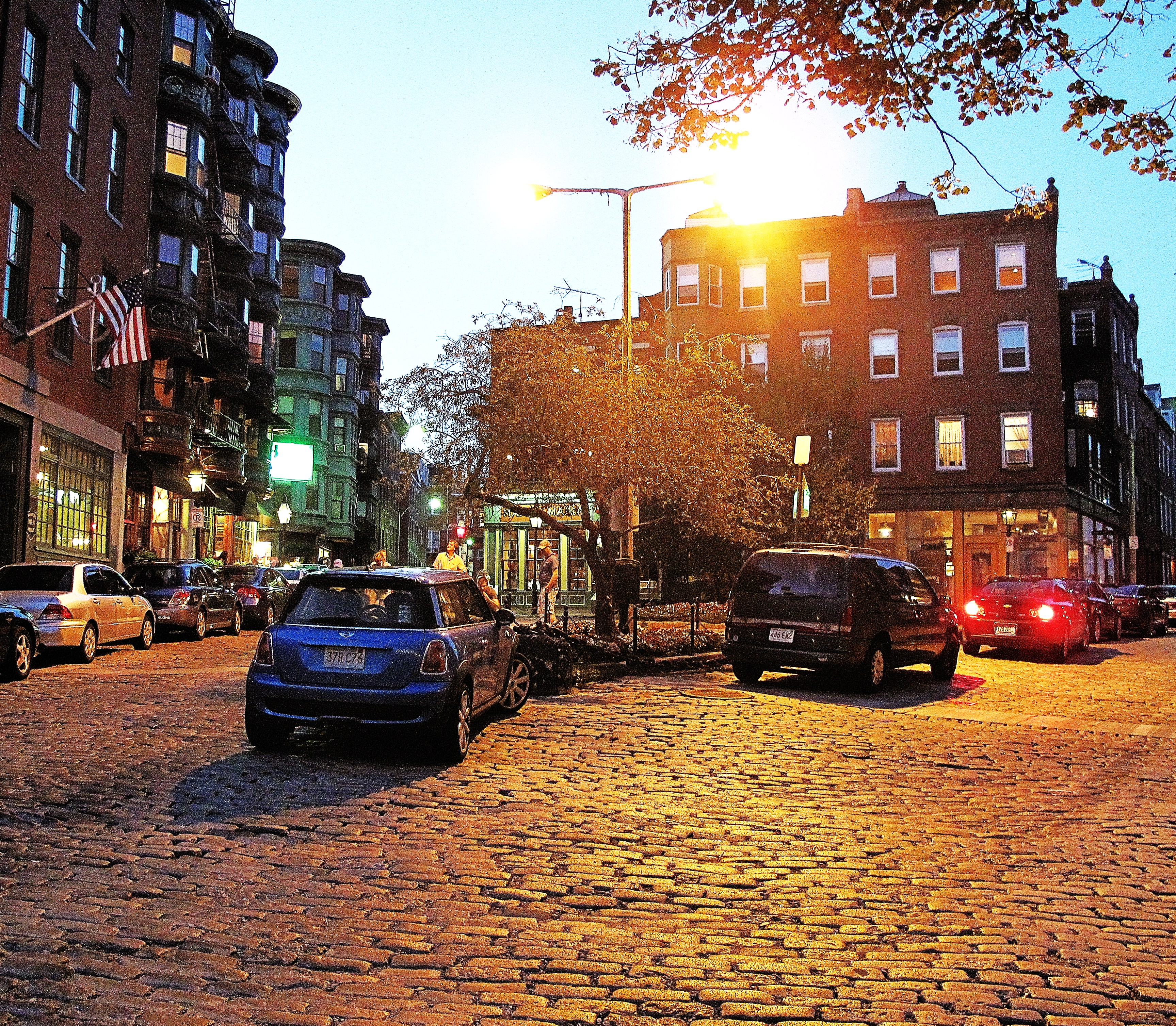 Boston at night